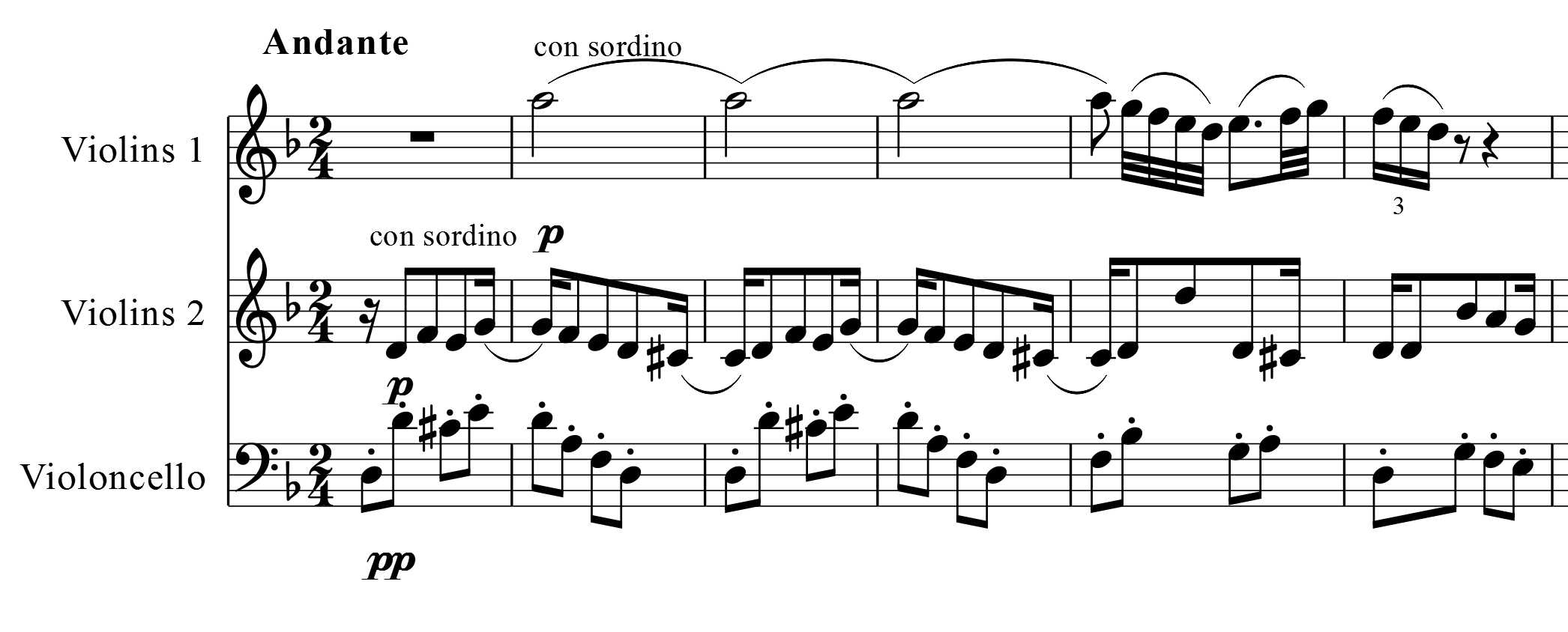 Joseph Haydn, Symphony No. 4, second movement, bar 1-6